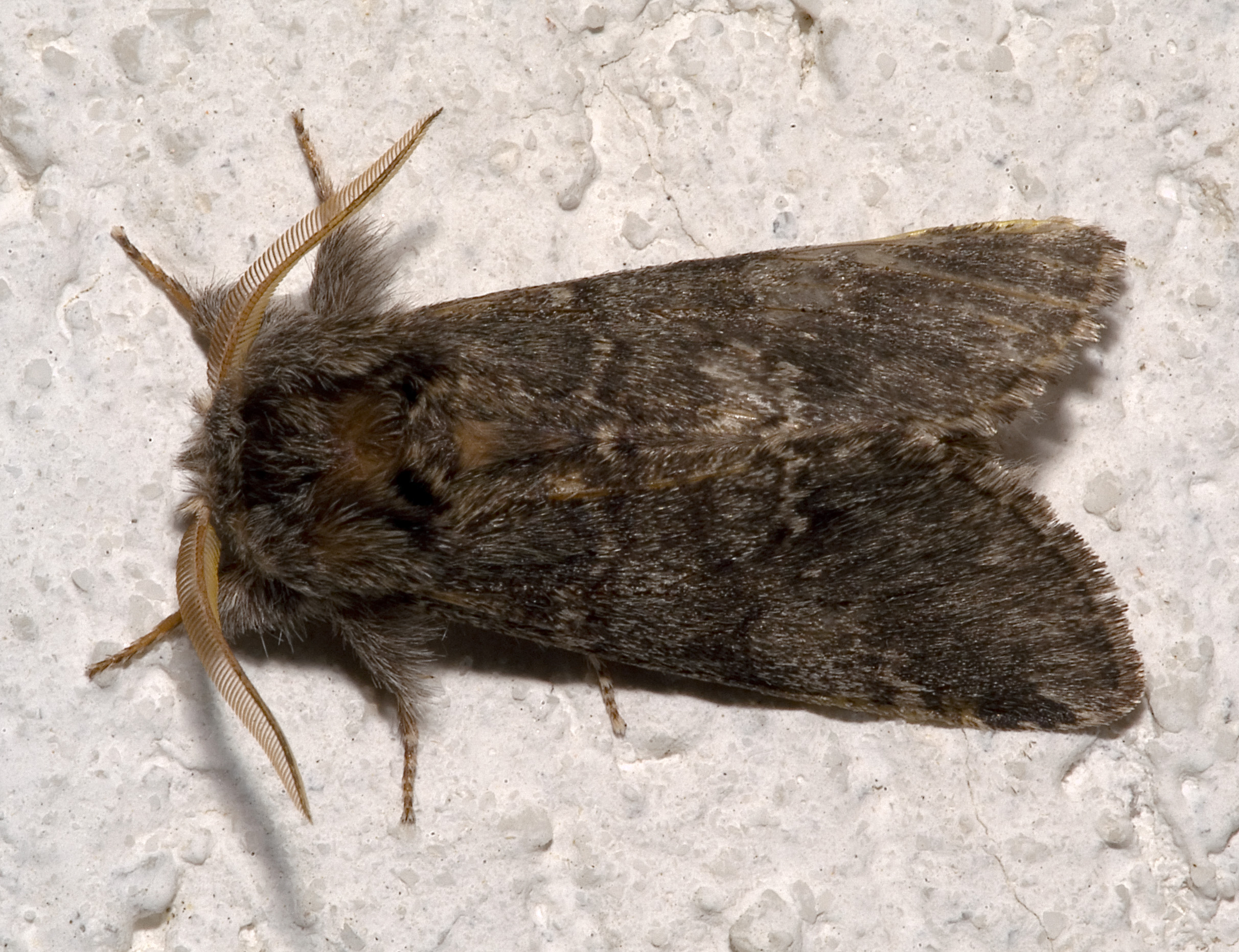 Please report references to kulacgmx.at.